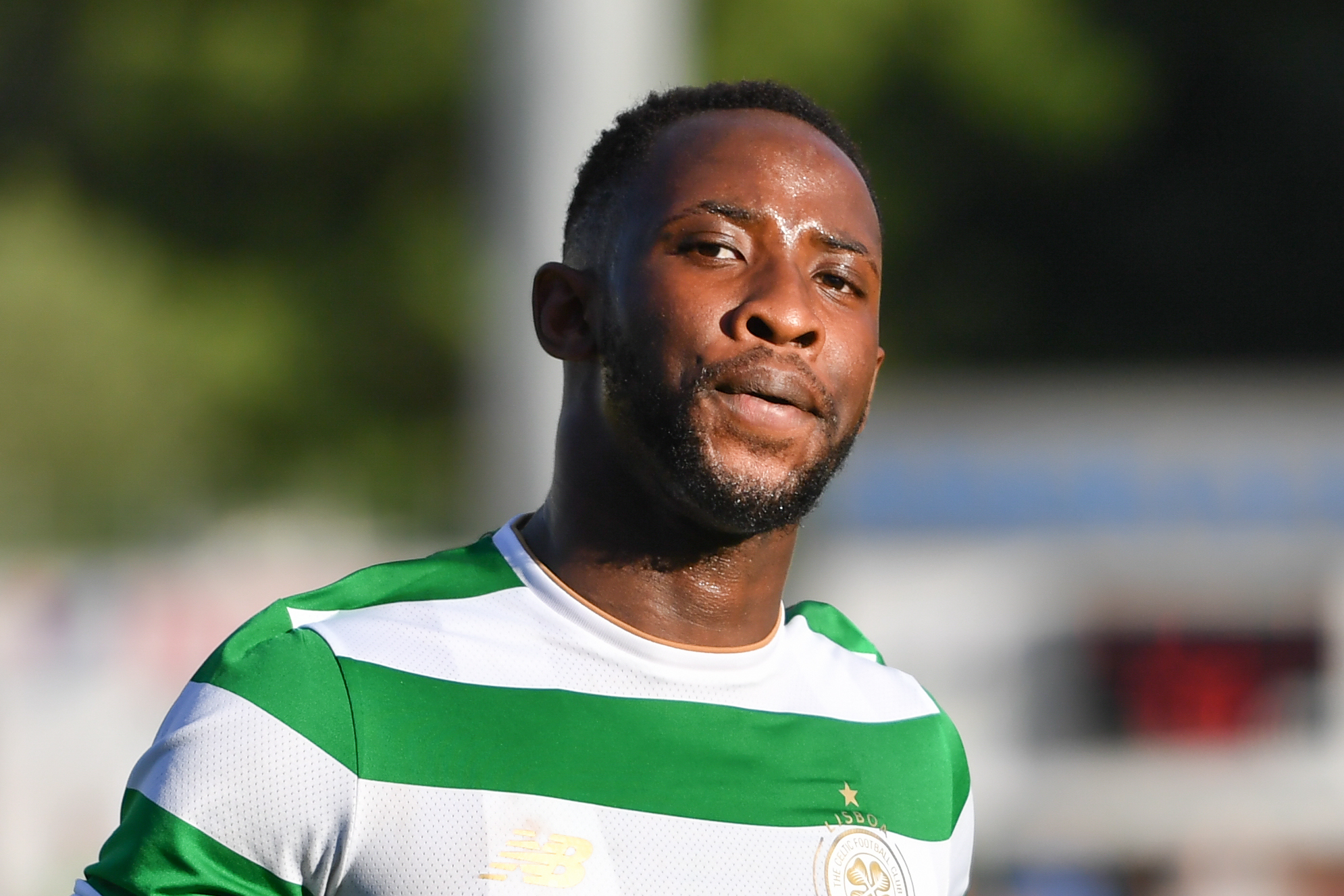 1/7/2017, Amstetten, Austria, sports, soccer, Tipico Fussball Bundesliga - preparation match SK Rapid Wien vs Celtic Glasgow. Image shows Moussa Dembele (Celtic FC).